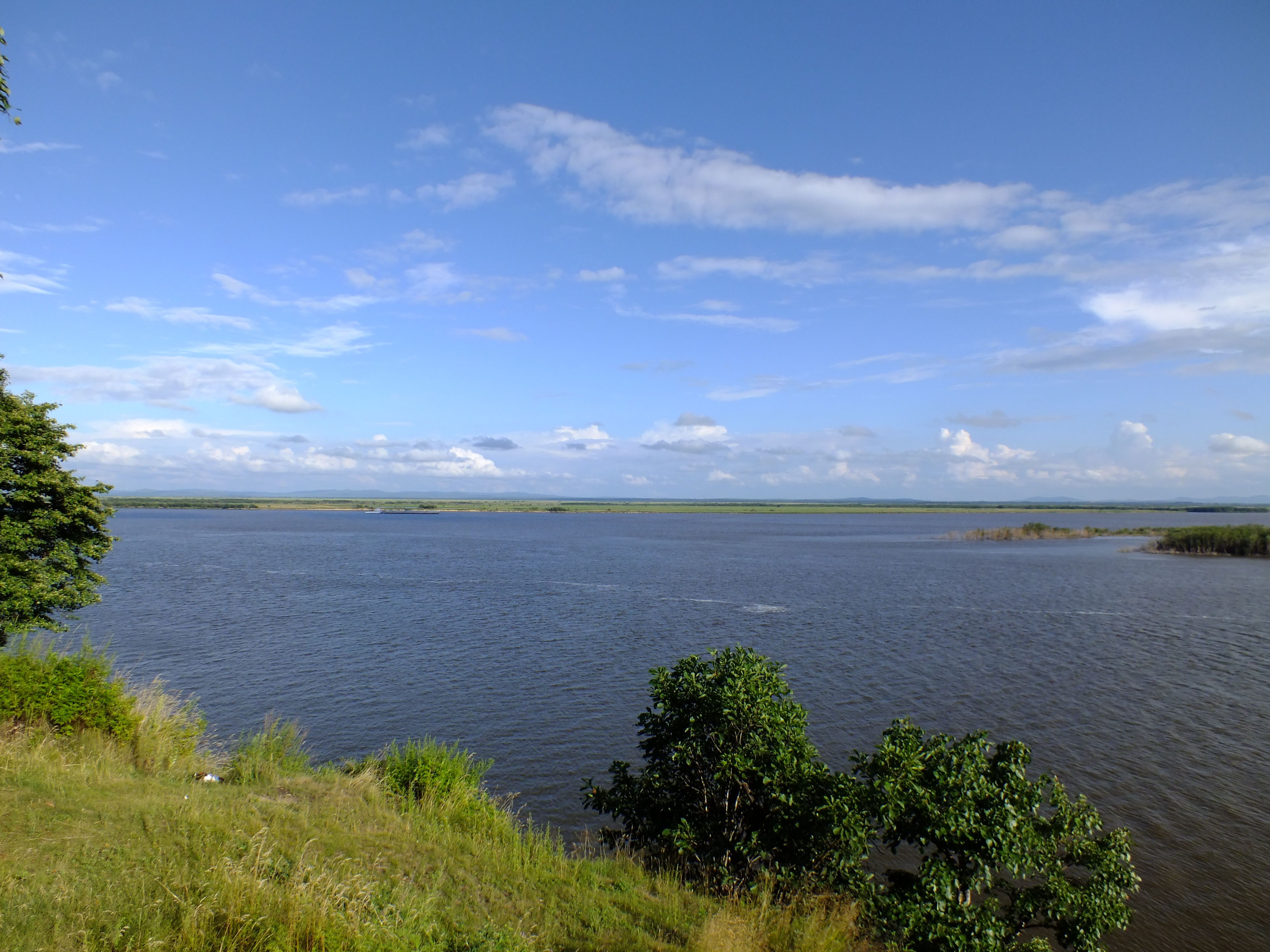 Amursk